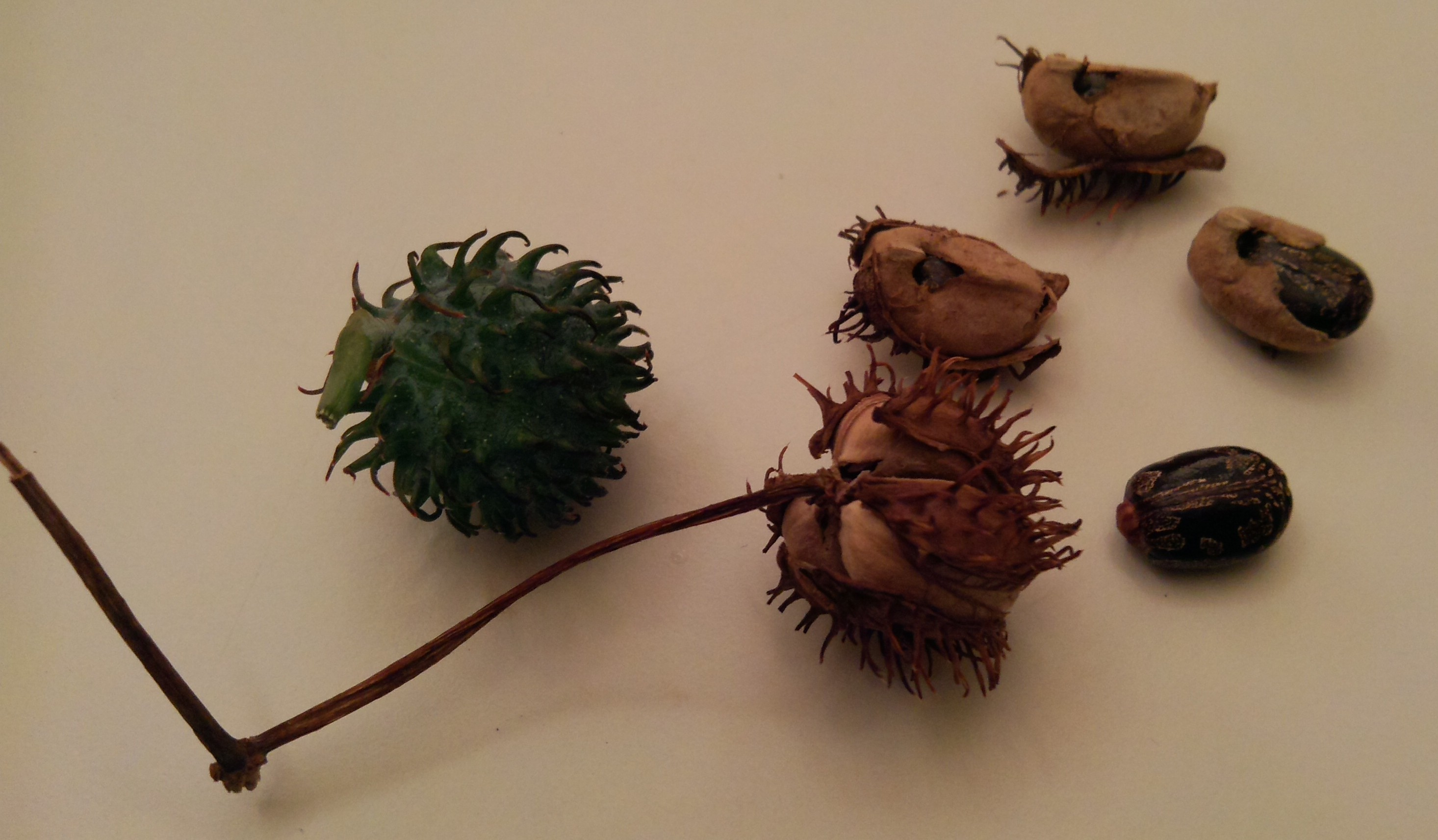 Castor Oil Plant seeds, both fresh green and dried, showing entire pods, and the pod split into three parts, and the exposed seed. Can see why it gets it's name from tick in latin. The shelled seeds are beautiful but DEADLY POISONOUS! 4-8 can kill an adult!